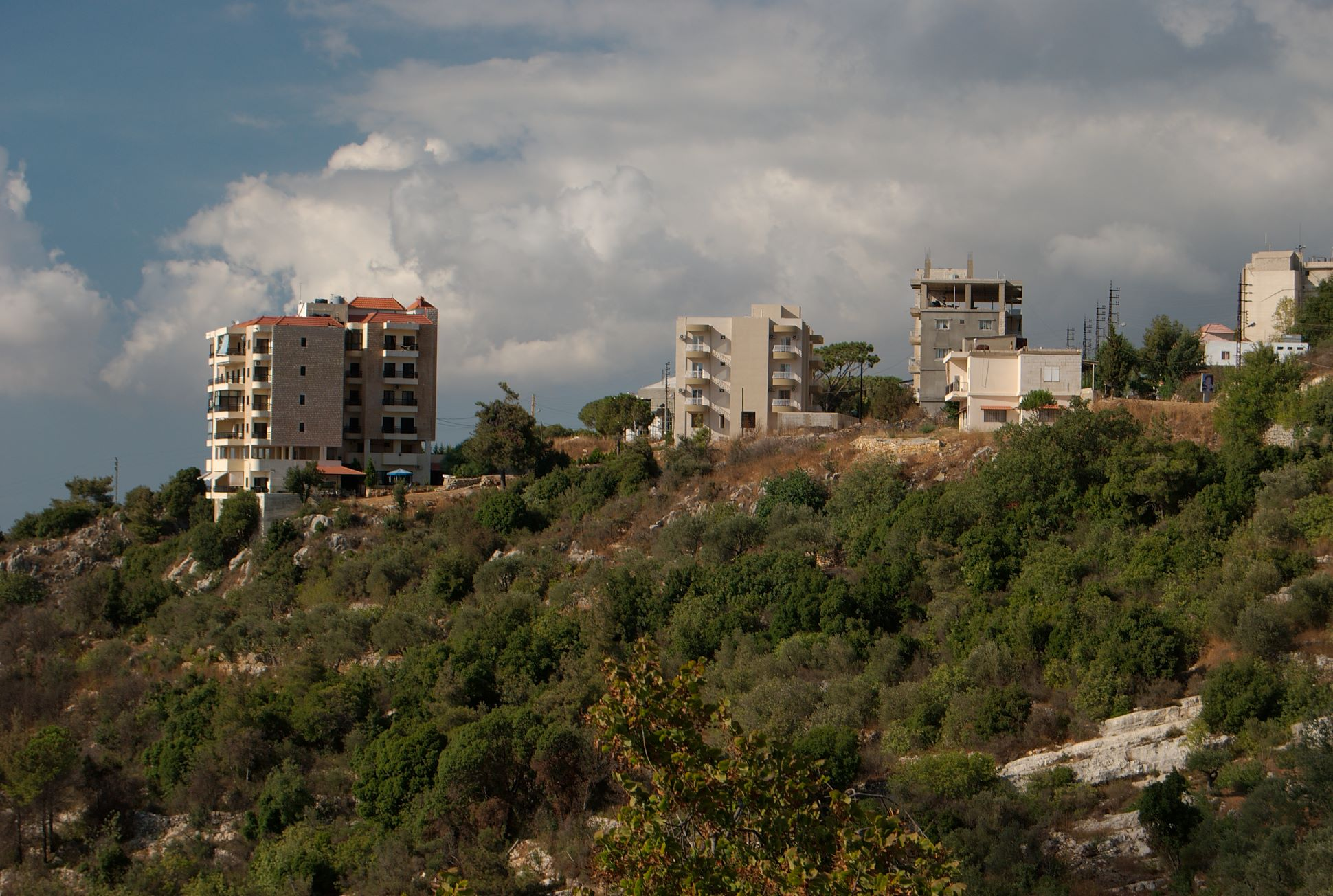 Houses on a slope. Western side of Ainab, Lebanon. Shot taken from near the new community hall.